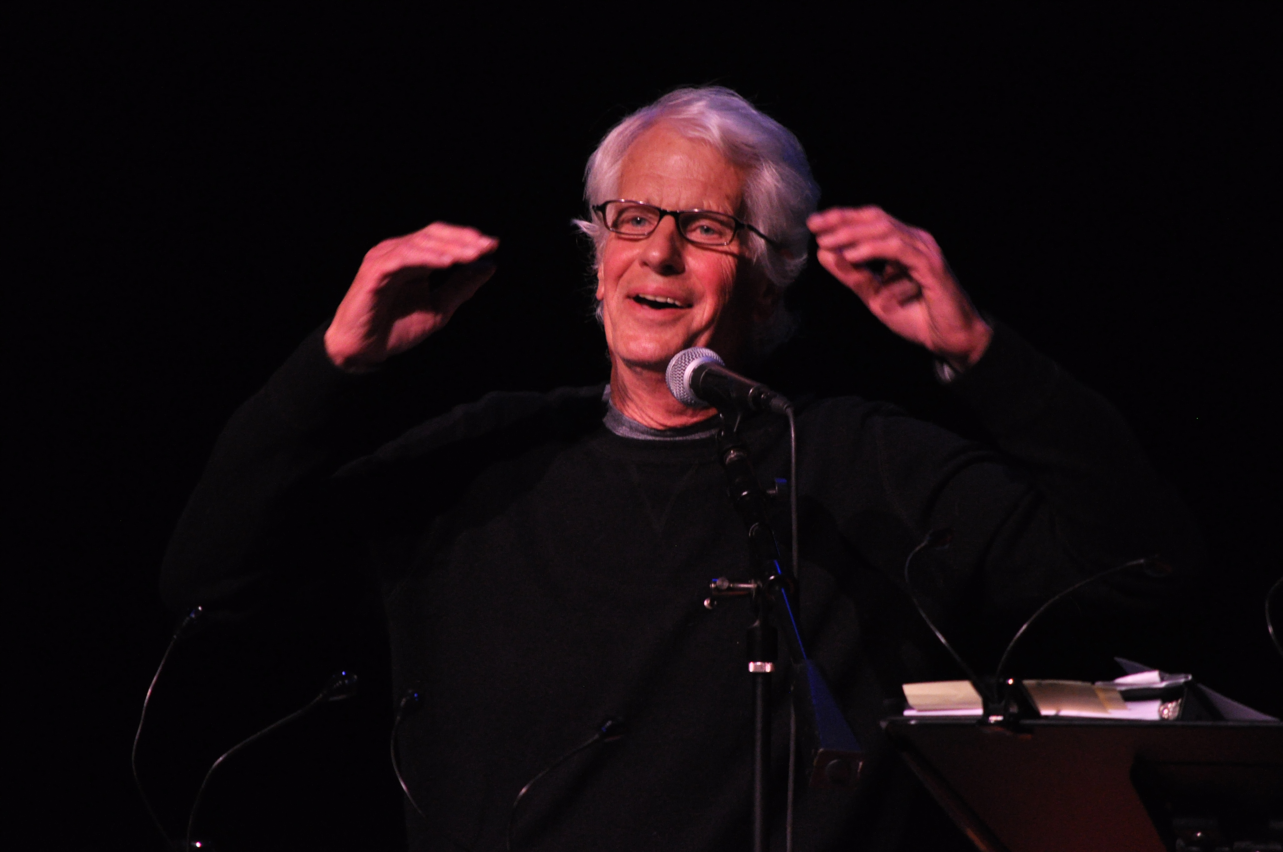 Surviving Firesign Theatre member Philip Austin paying tribute to the late Peter Bergman. The tribute performance by the surviving members of the troupe was called the "Big Brouhaha" and took place April 21, 2012 at the Kirkland Performance Center, Kirkland, Washington, USA.